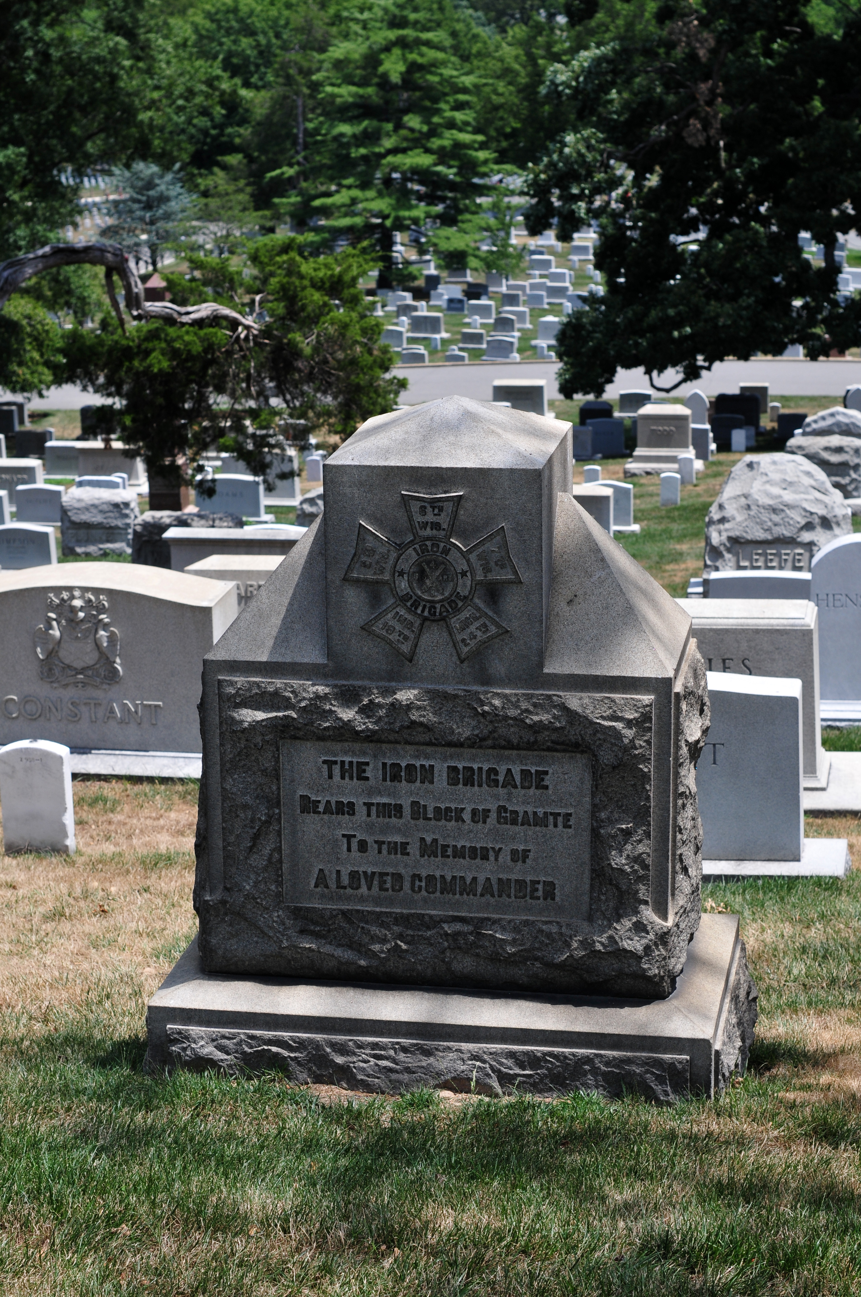 Arlington Cemetery, VA. Monument of the iron Brigade - Rears this Block of Granite - To the Memory of - Loved Commander